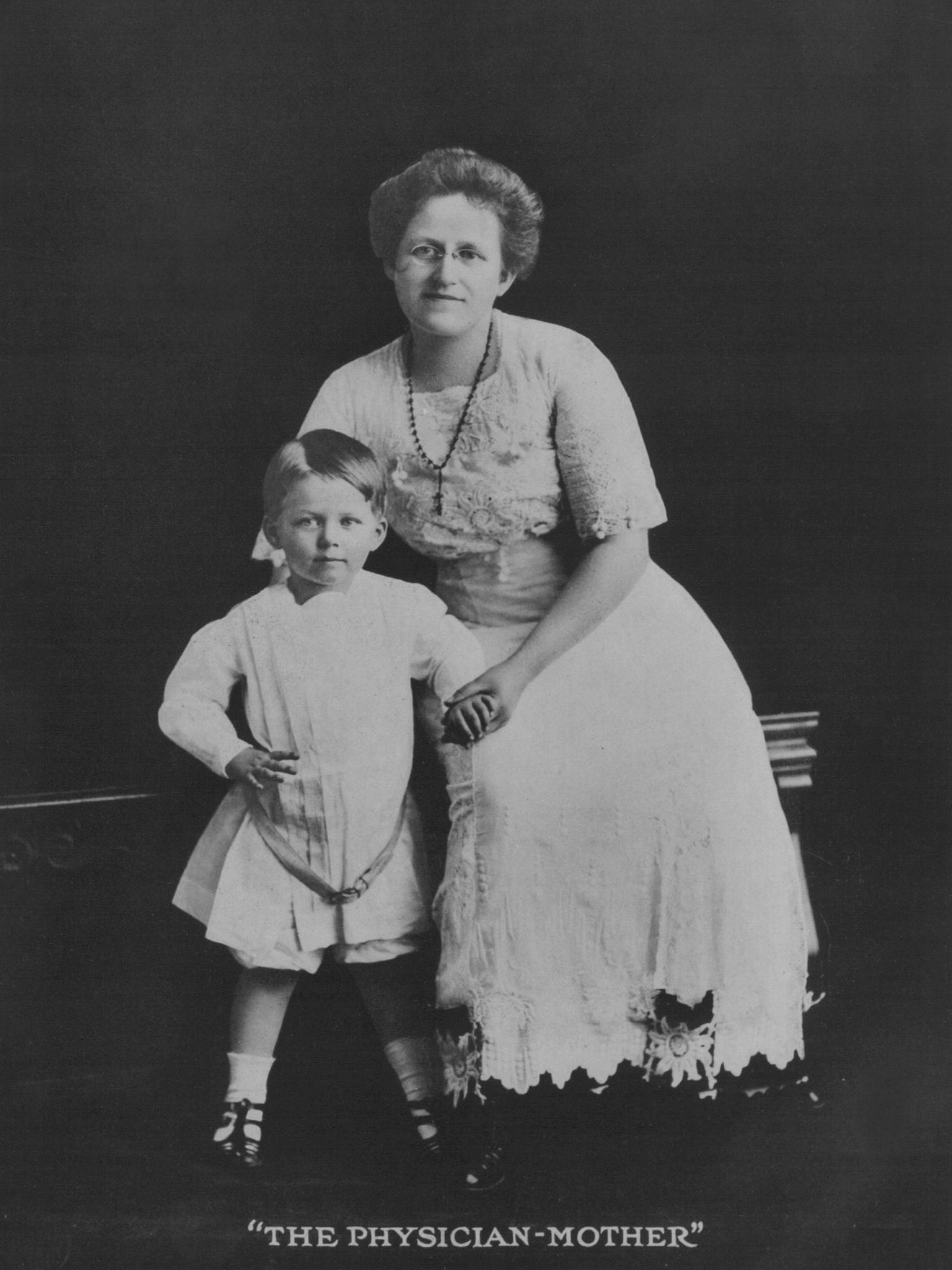 Dr Lena Sadler and son, William S Sadler Jr; Photograph used in brochure for Chautauqua Redpath Tour